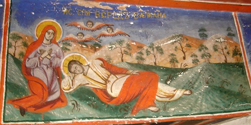 Saint Elijah Church in Bogoroditsa Fresco 2